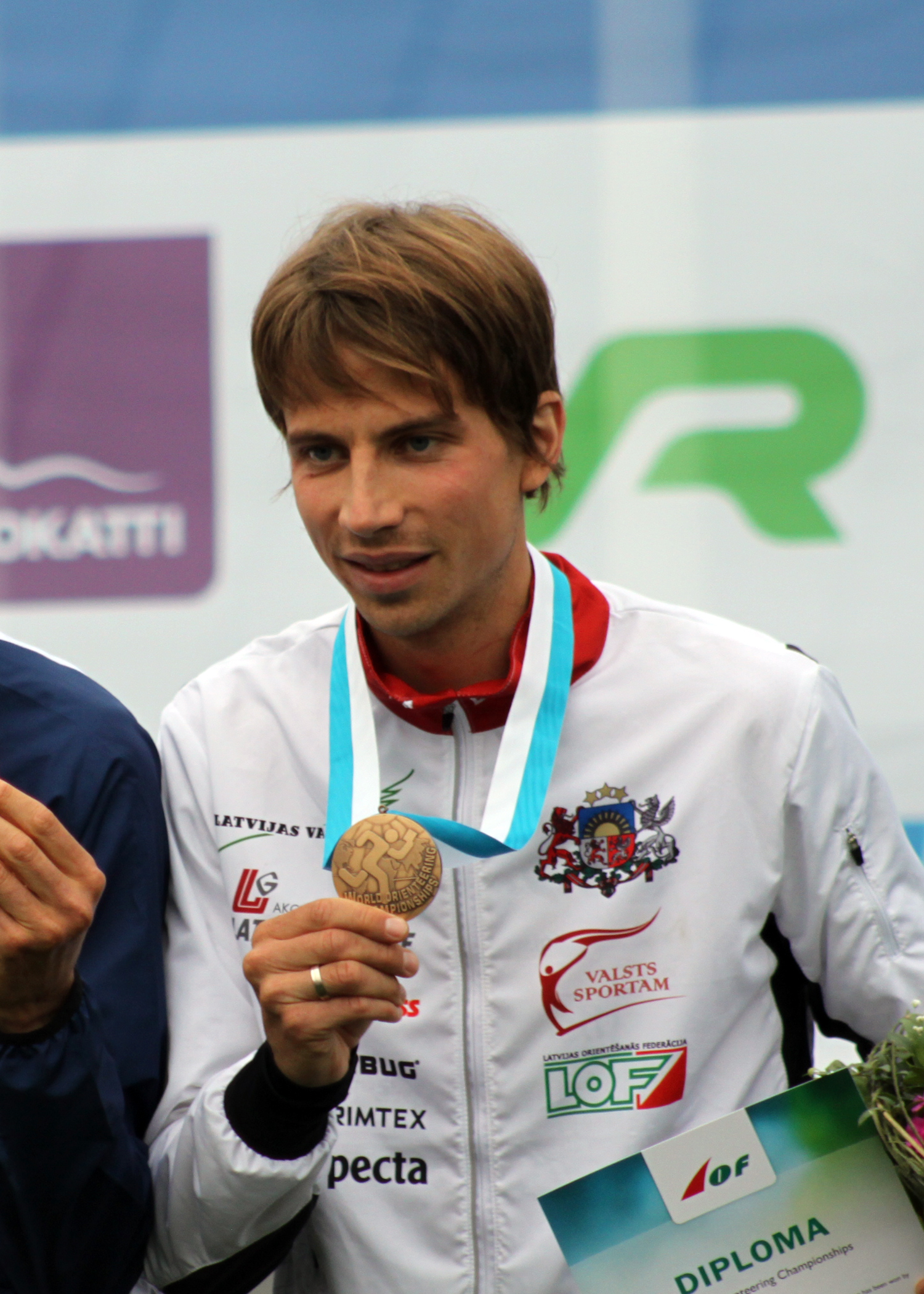 Edgars Bertuks at World Championships 2013